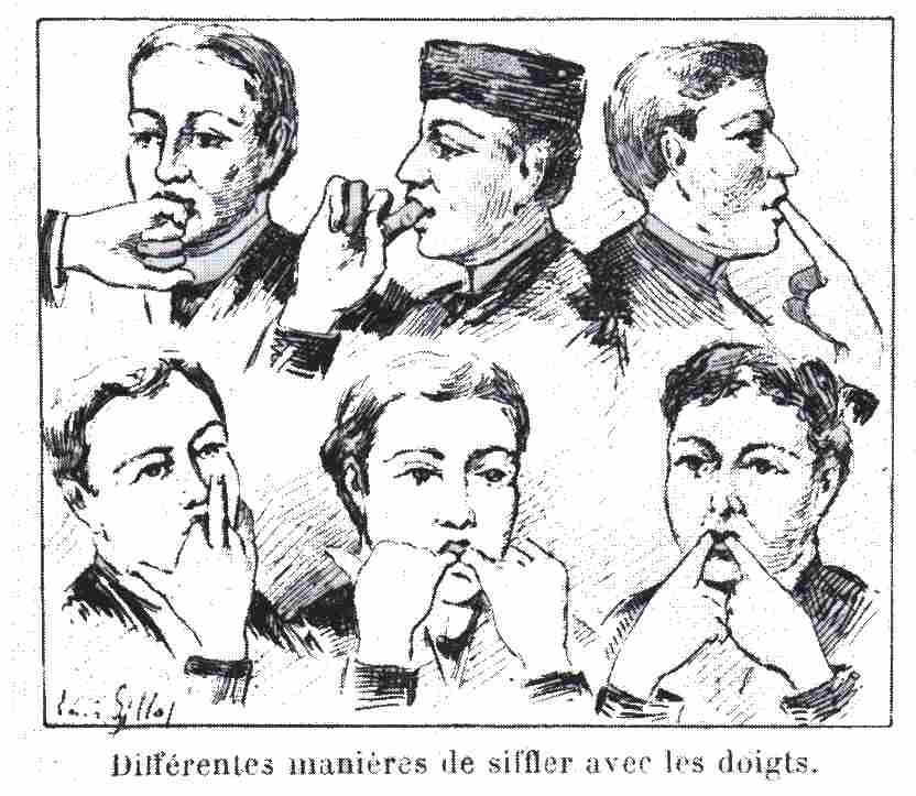 Different ways of whistling with the fingers